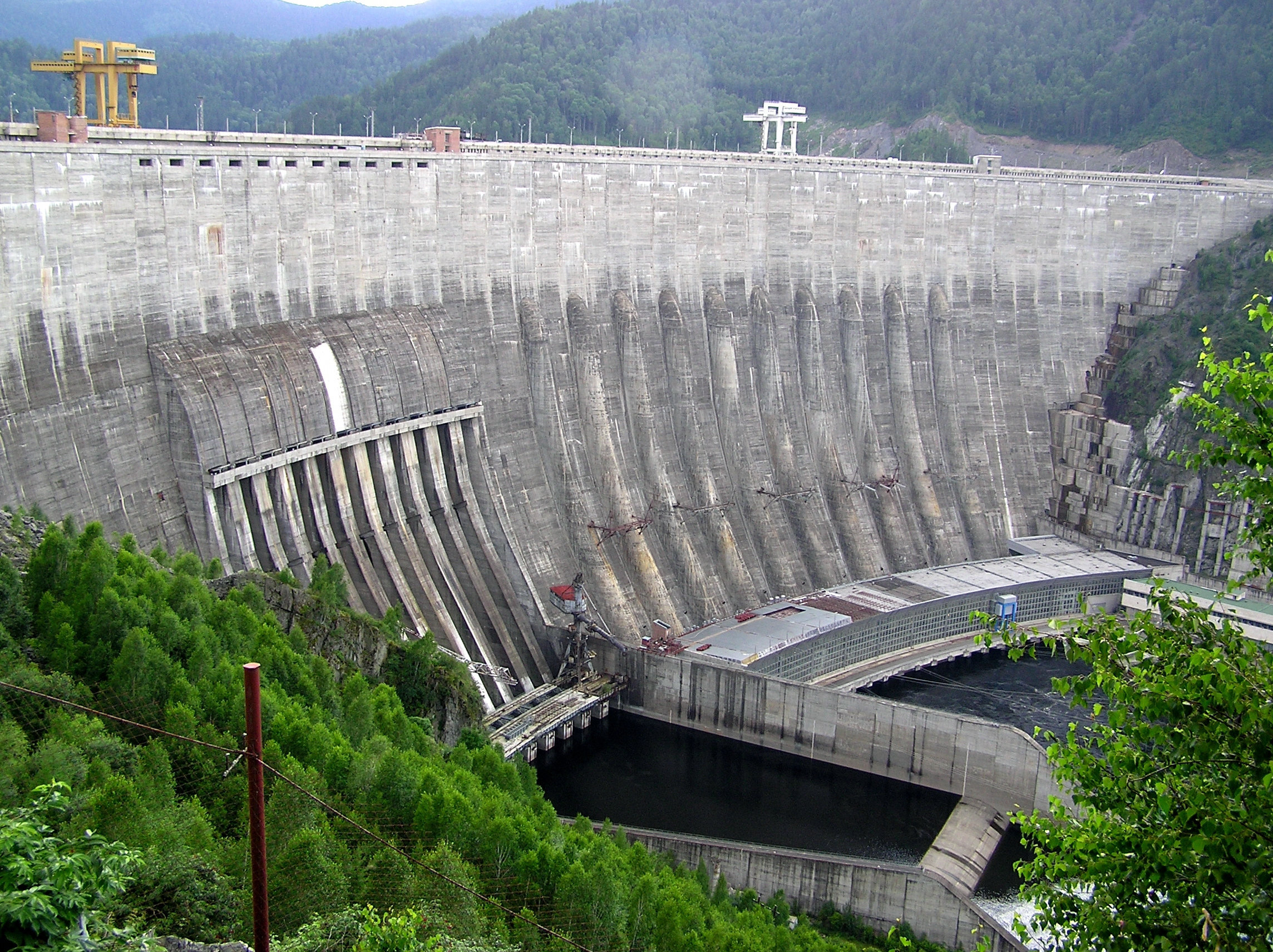 Sayano–Shushenskaya hydroelectric power station